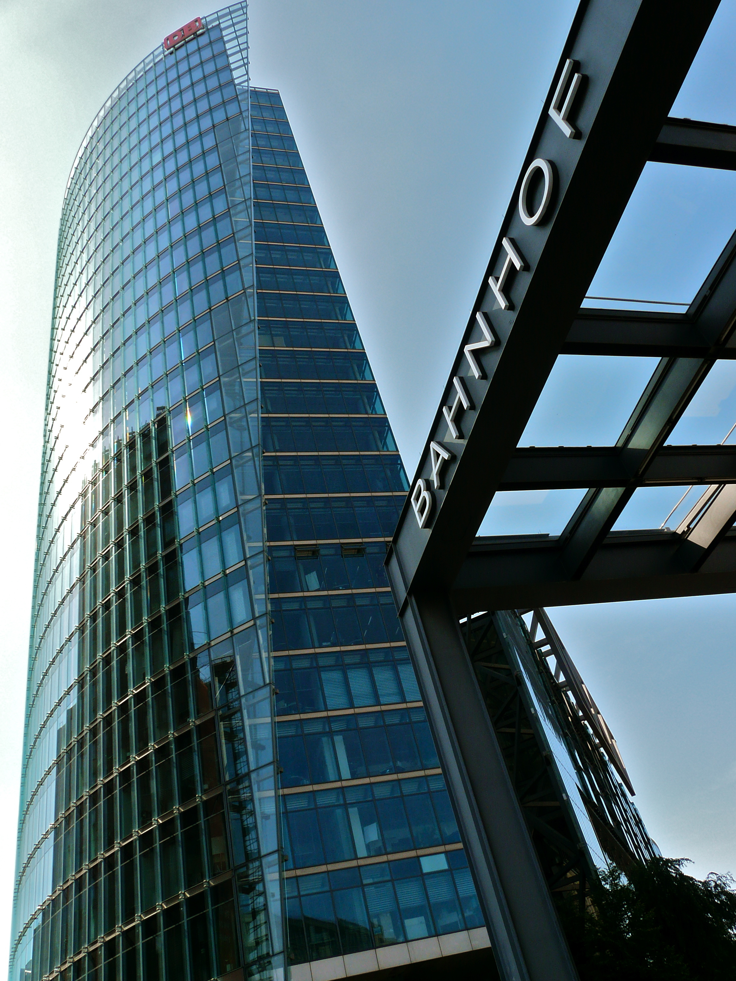 Photo of the Deutsche Bahn building in Potsdamer Platz in Berlin.